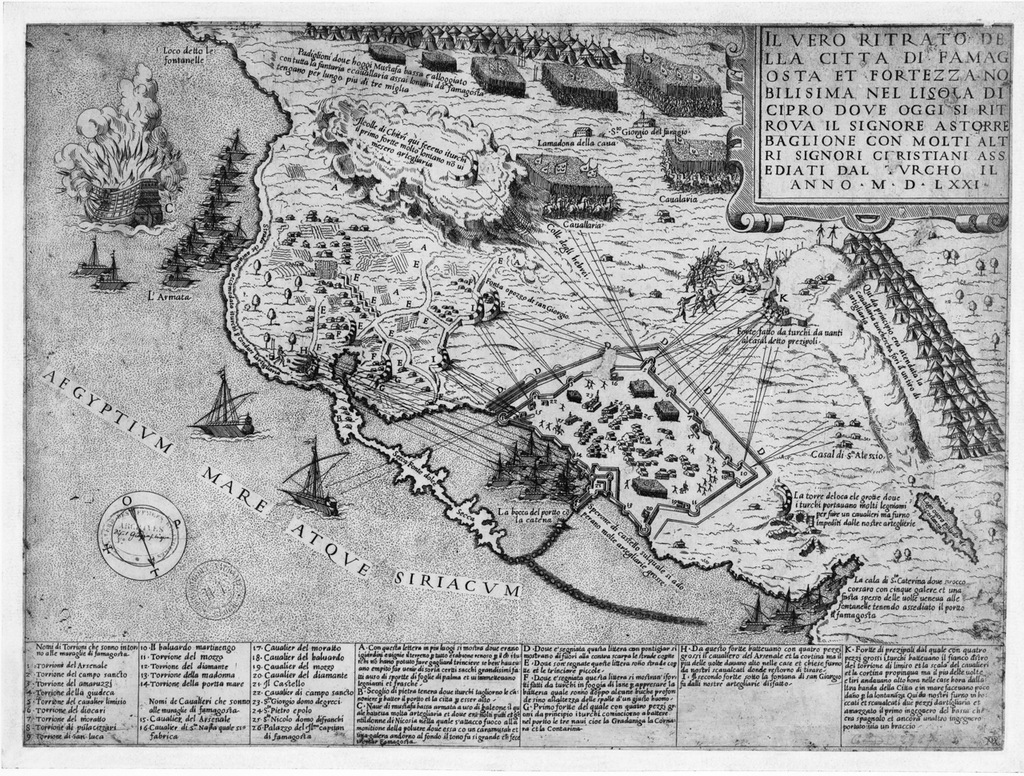 Siège de Famagouste,(1571)Bibliothèque nationale de France